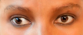 Ethiopian woman with squint